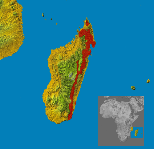 Range of Fossa fossana (Malagasy Civet)